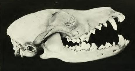 Cape jackal skull